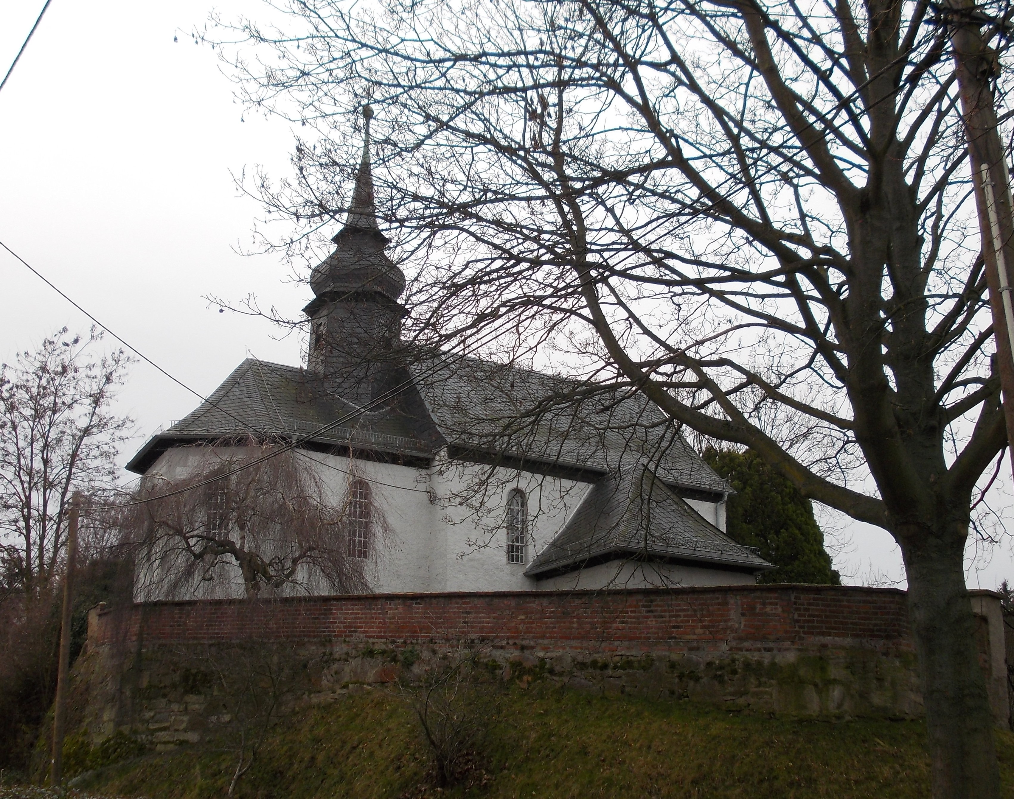 Illsitz church (Altkirchen, Altenburger Land district, Thuringia)